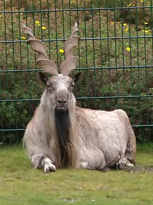 Markhor (Capra falconeri hepneri) im Tierpark Berlin, Germany.